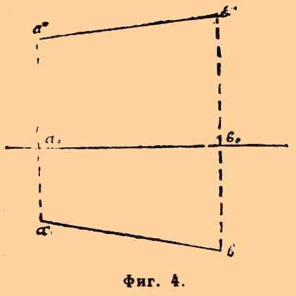 Illustration from Brockhaus and Efron Encyclopedic Dictionary (1890—1907)